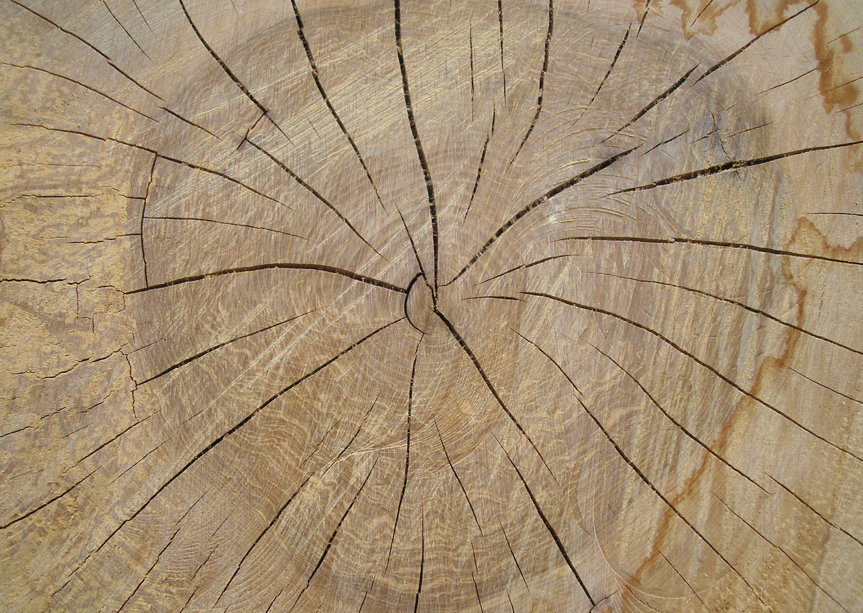 Saw cut of a wood showing it's structure